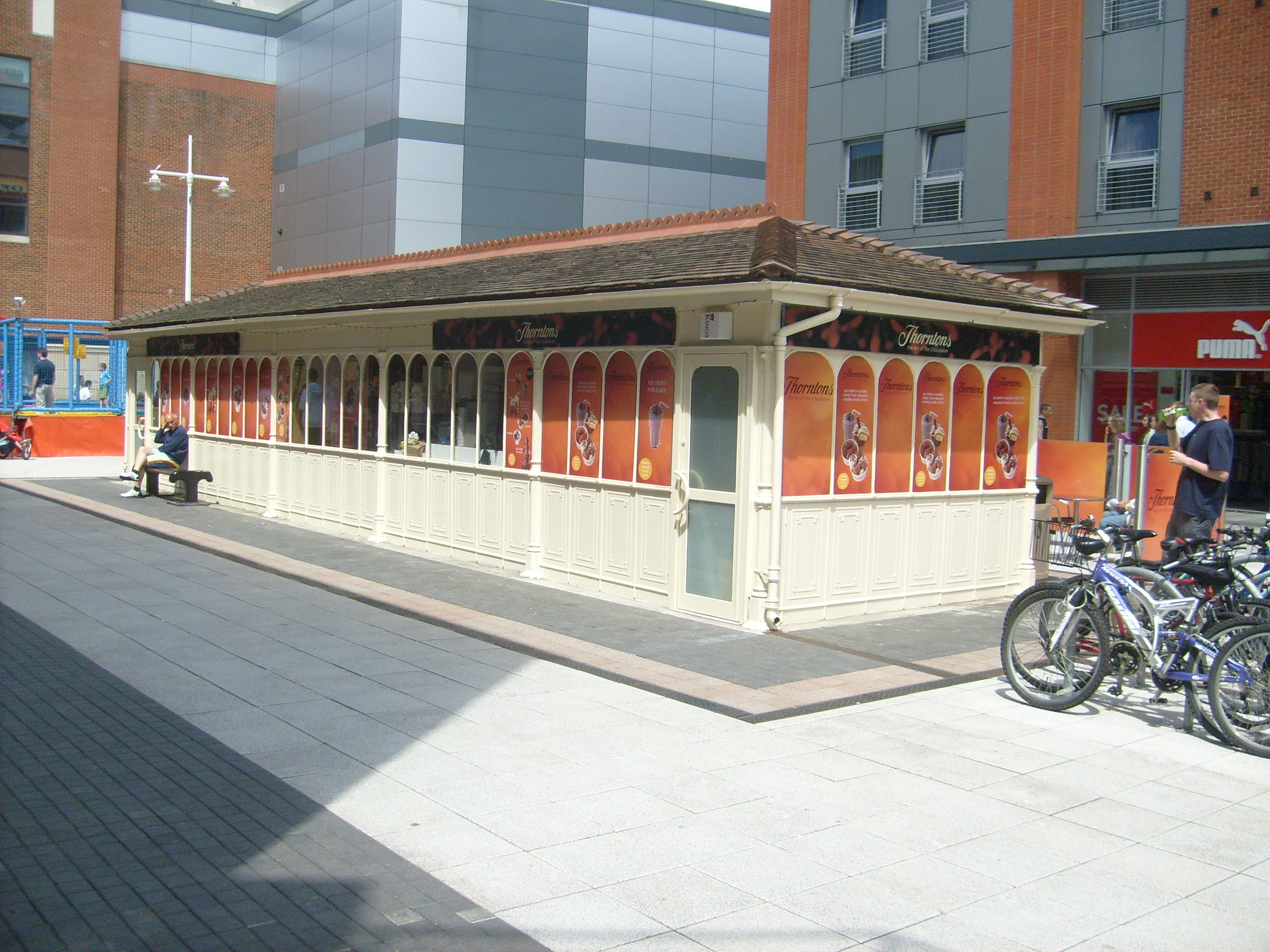 A former Portsmouth Corporation tram shelter now used as a Thorntons Ice Cream store in Gunwahrf Quays.